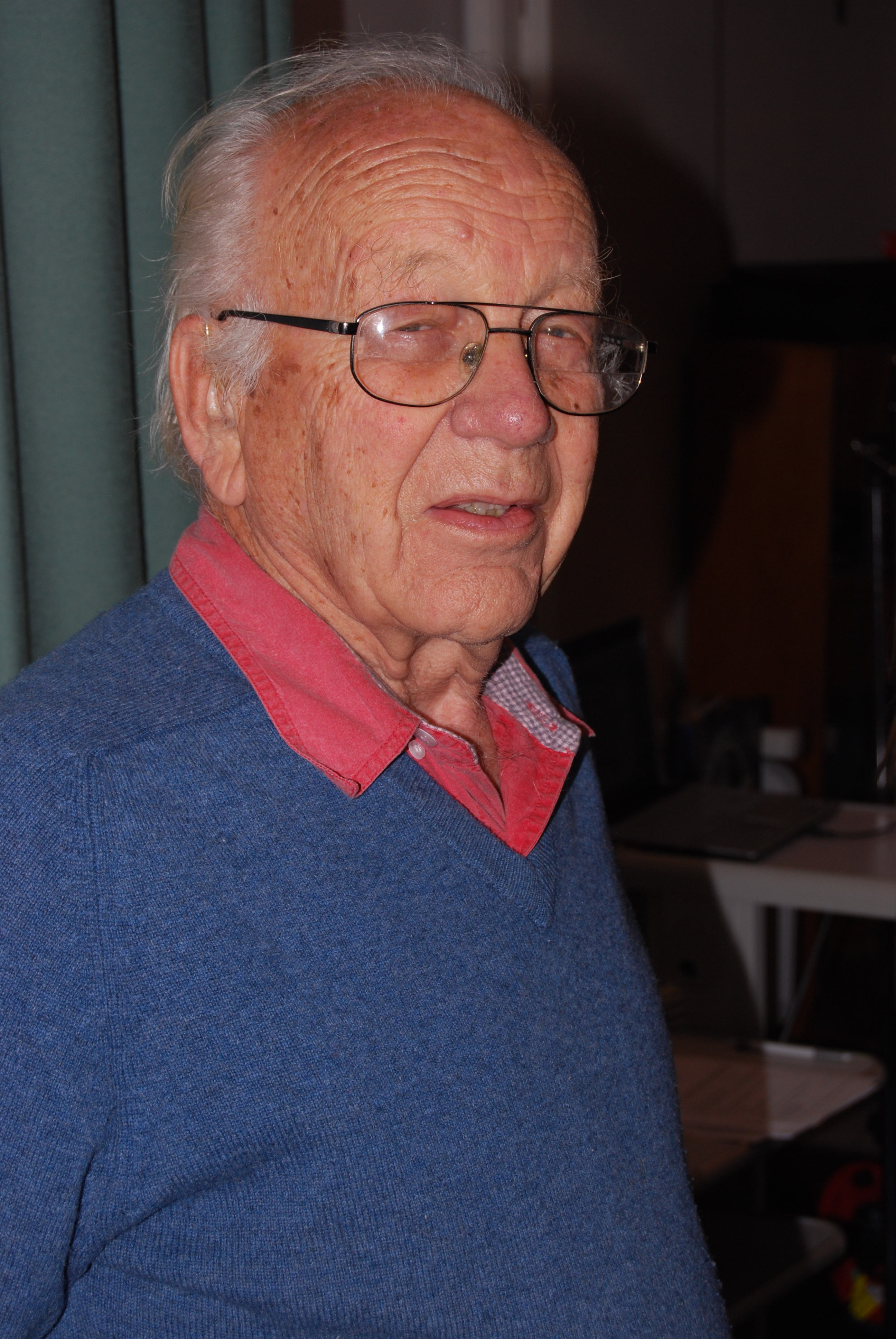 Francis Graham Smith @ Jodcast Live 21st nov 2009